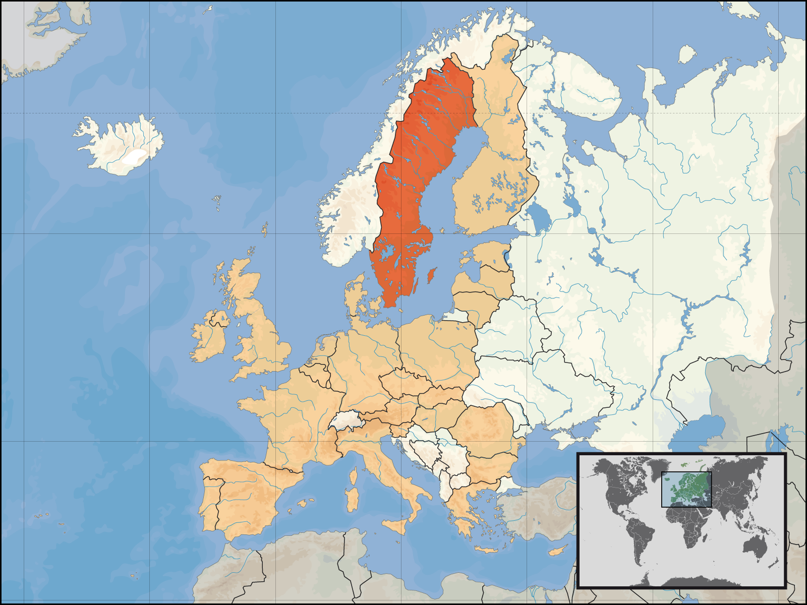 Location of Sweden within Europe and the European Union on the 1st of January 2007.